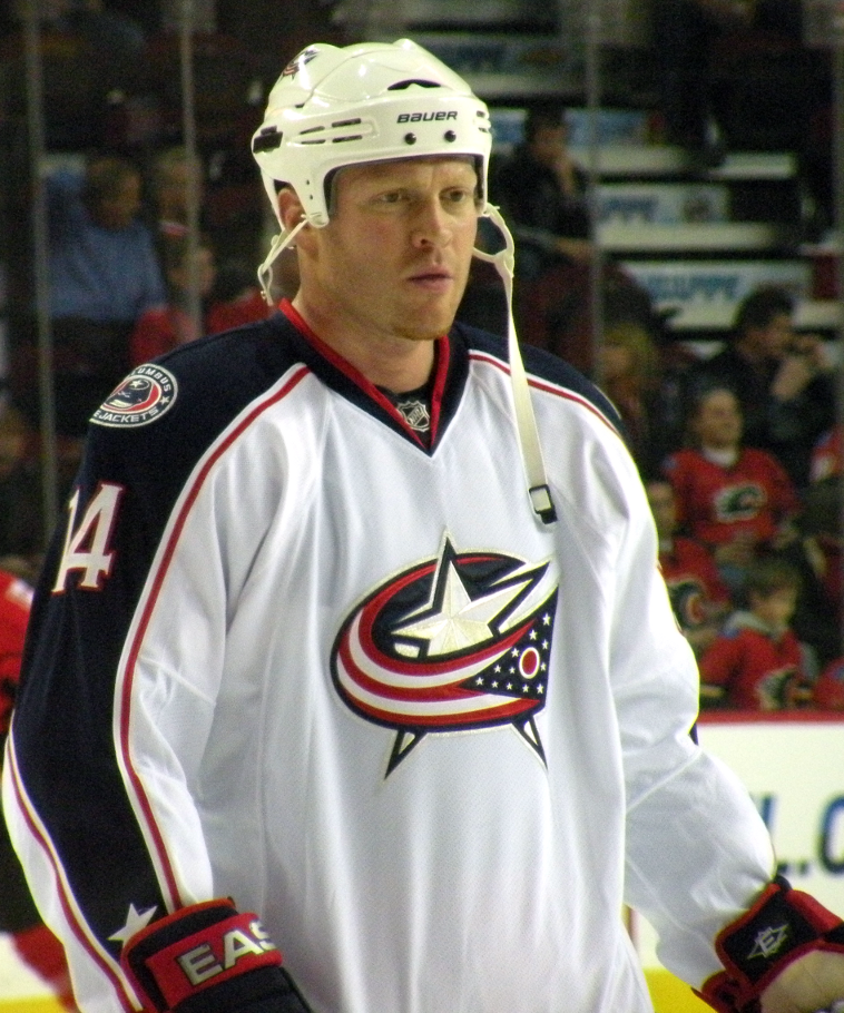 Columbus Blue Jackets forward Raffi Torres prior to a National Hockey League game against the Calgary Flames, in Calgary.